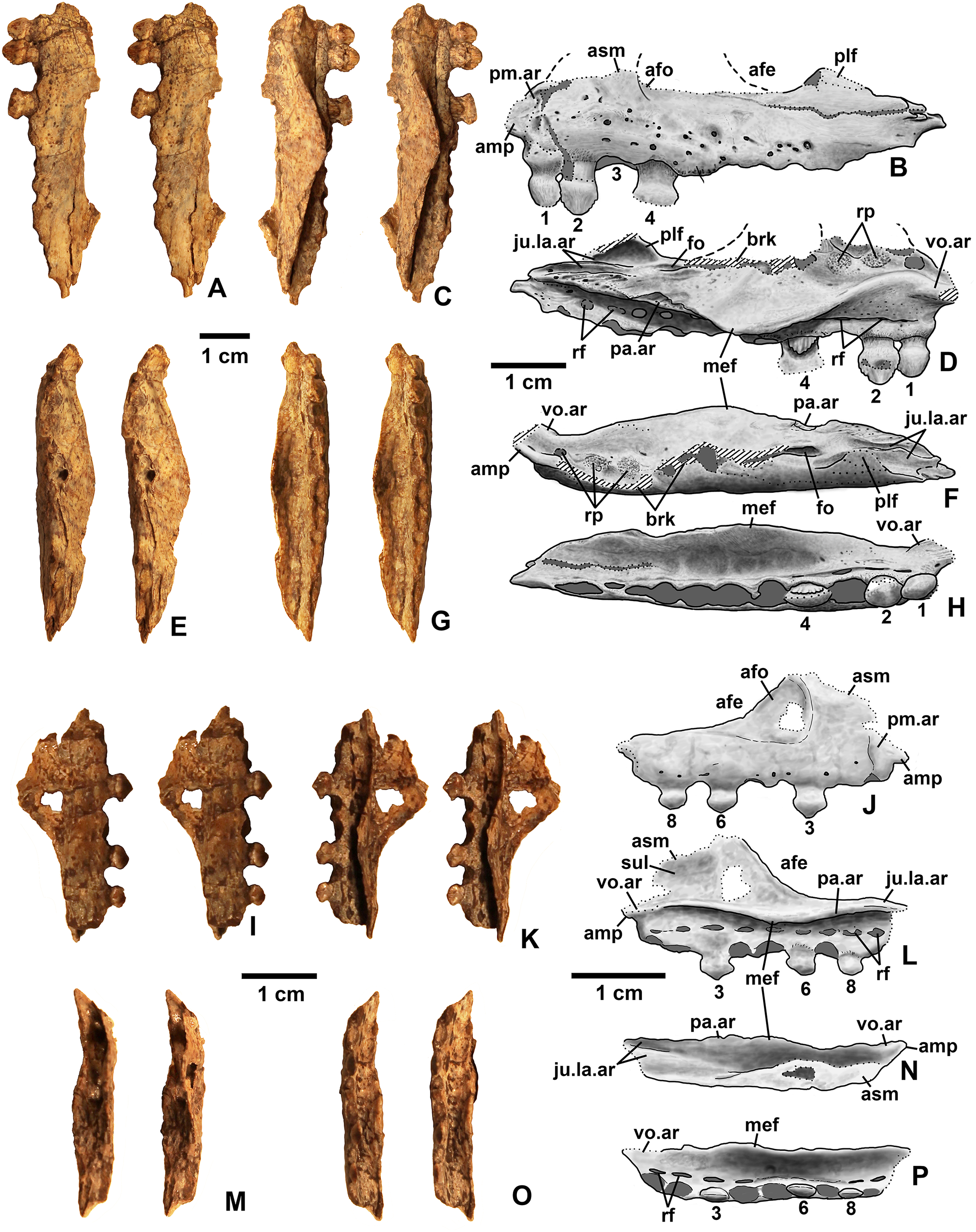 Figure 8: Kwanasaurus williamparkeri maxillae. (A) Holotype (DMNH EPV.65879) left maxilla stereopairs of lateral view, (B) interpretive drawing of same, (C) stereopairs of medial view, (D) interpretive drawing of same, (E) stereopairs of dorsal view, (F) interpretive drawing of same, (G) stereopairs of ventral view, (H) interpretive drawing of same, (I) DMNH EPV.63650, right maxilla stereopairs of lateral view, (J) interpretive drawing of same, (K) stereopairs of medial view, (L) interpretive drawing of same, (M) stereopairs of dorsal view, (N) interpretive drawing of same, (O) stereopairs of ventral view, (P) interpretive drawing of same. Hatching indicates broken bone surface, dotted lines indicate broken bone edge. Dark gray areas filled with matrix. Scale bars = 2 cm. afe = antorbital fenestra afo = antorbital fossa amp = anteromedial process asm = ascending process of the maxilla brk = broken bone surface fo = foramen = jugal and lacrimal articulation mef = medial flange pa.ar = palatine articulation plf = posterolateral flange pm.ar = premaxilla articulation rf = replacement foramina rp = replacement pits sul = sulcus vo.ar = vomerine flange